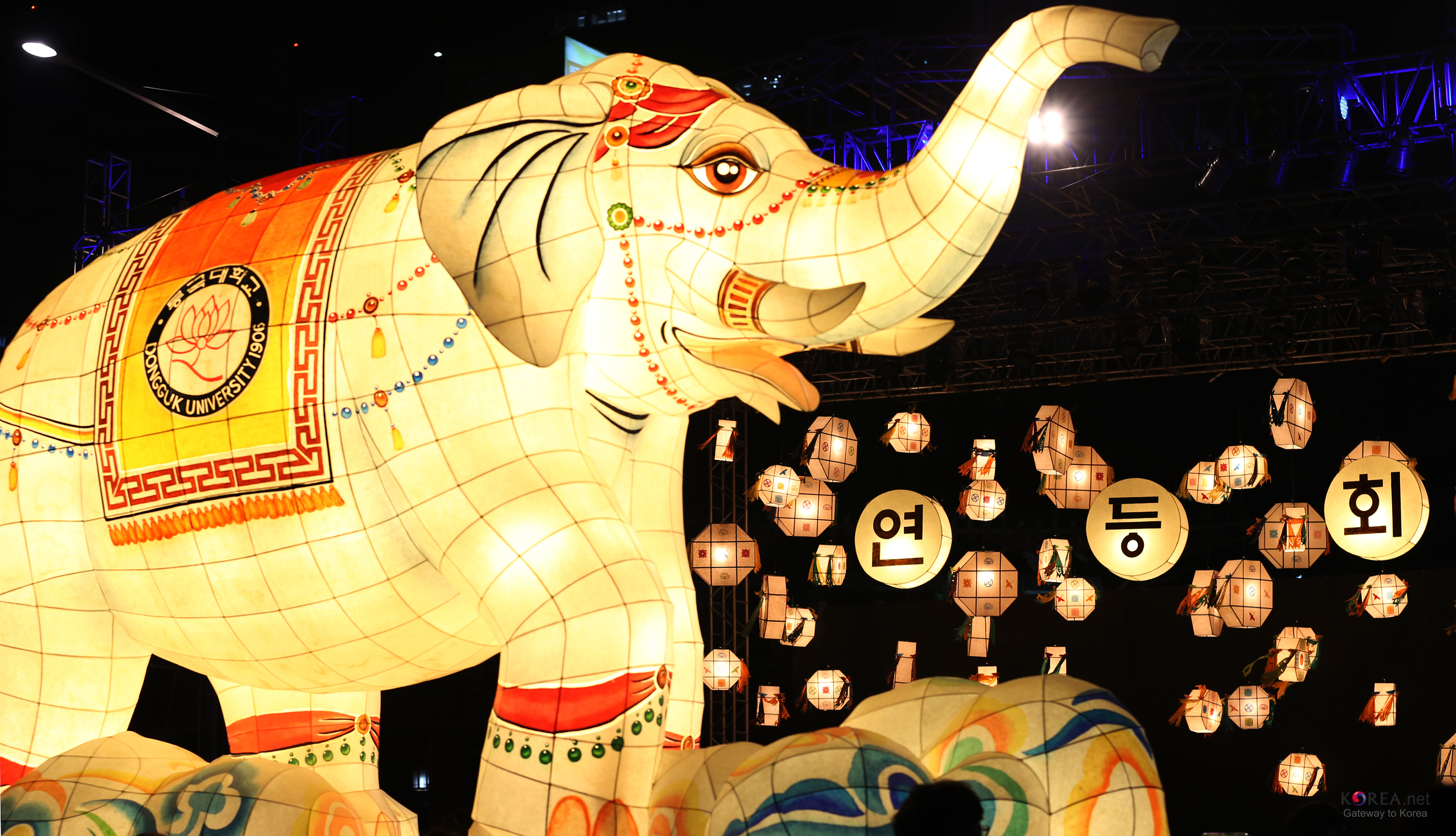 Yeon Deung Hoe (Lotus Lantern Festival) Jongno-gu, Seoul 2013.05.11. -Related Article- "Lotus lanterns light up Seoul night" Ministry of Culture, Sports and Tourism Korean Culture and Information Service Newsroom Jeon Han 연등회 불기2557년 부처님오신 날 맞이 연등회(중요무형문화제 제122호) 조계사 및 종로 일대 문화체육관광부 해외문화홍보원 코리아넷 전한